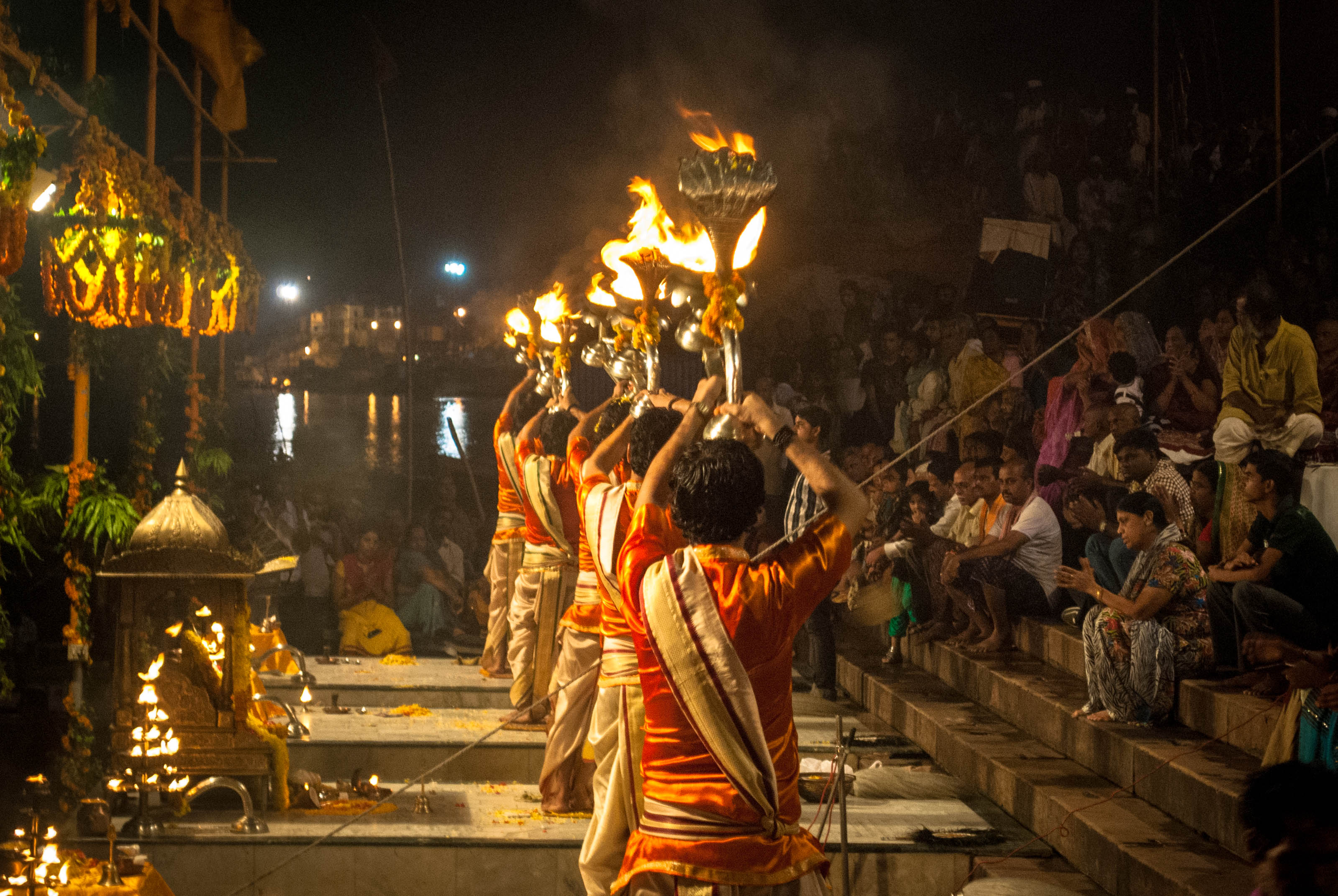 This picture was taken in Varanasi-2013